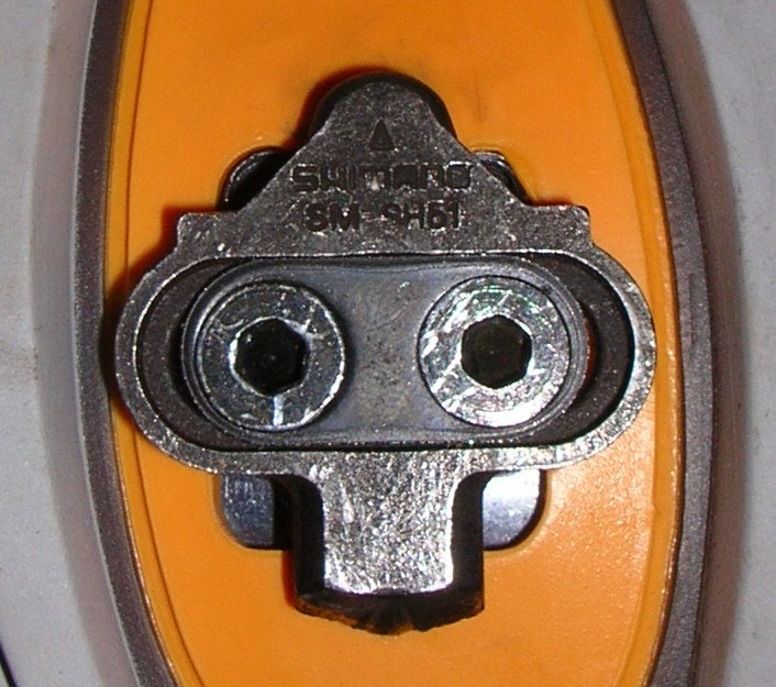 SM-SH51 - the recessed cleat pocket in the sole of the shoe (Clipless Pedal - Shimano Pedaling Dynamics)